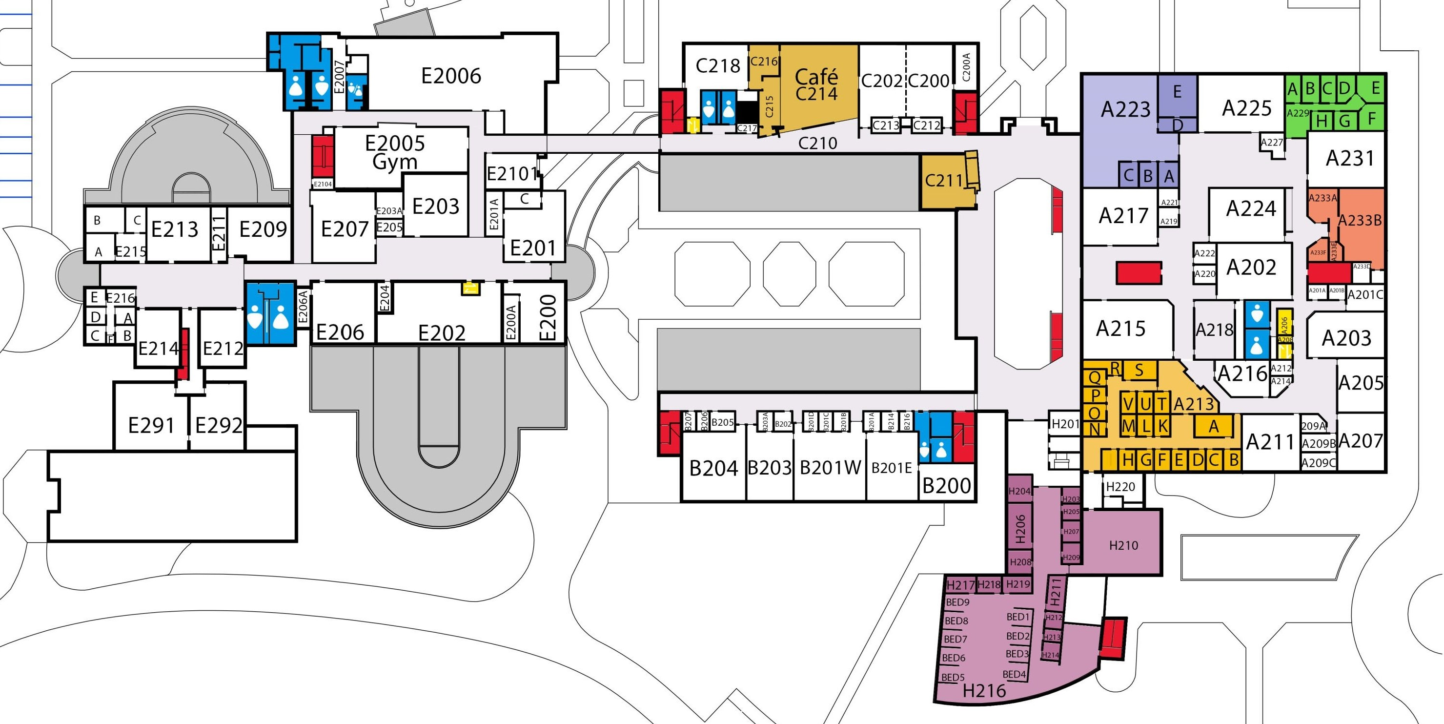 A map detailing room numbers of NSCC on the 2nd floor